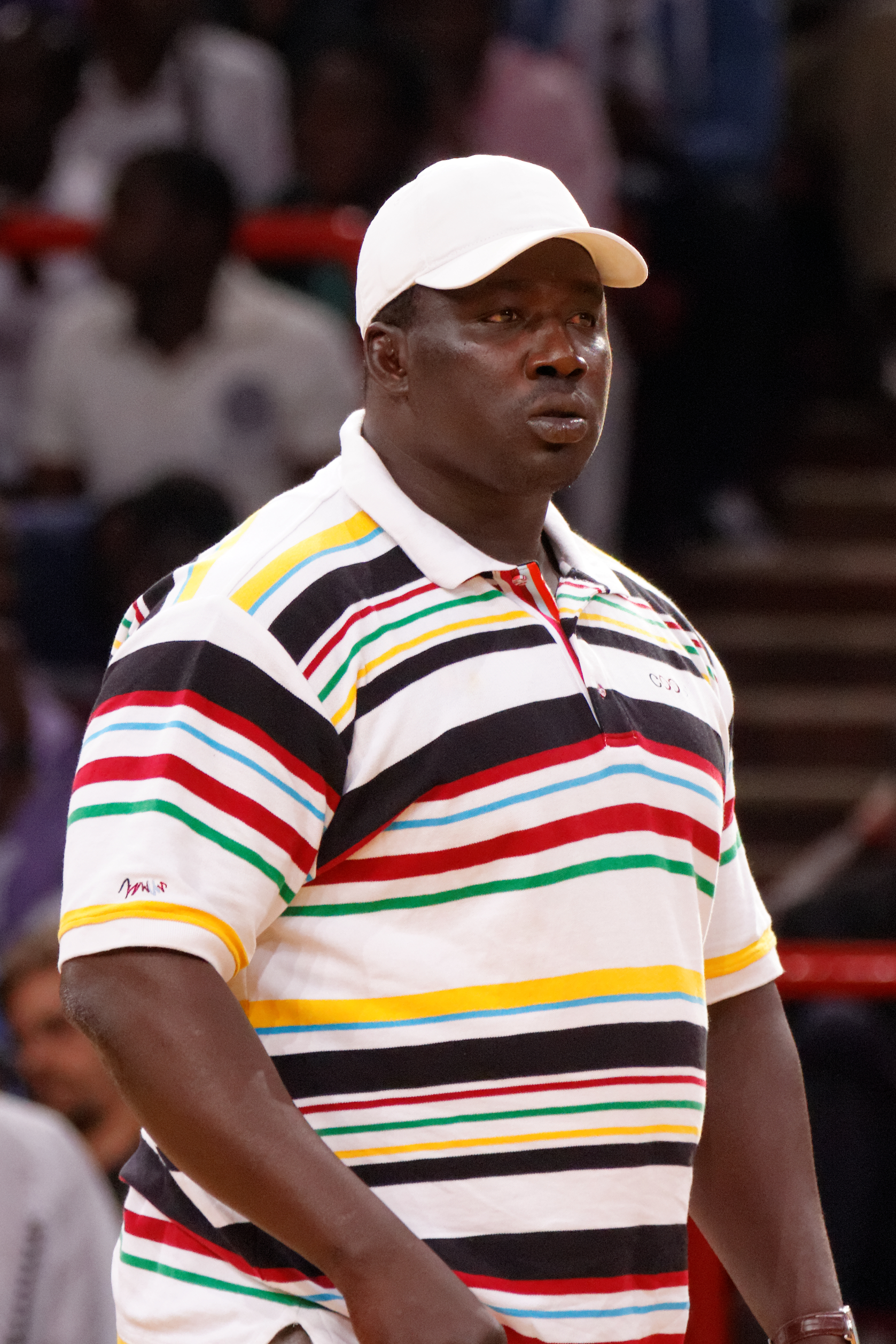 World African Wrestling world tour, Paris Bercy.